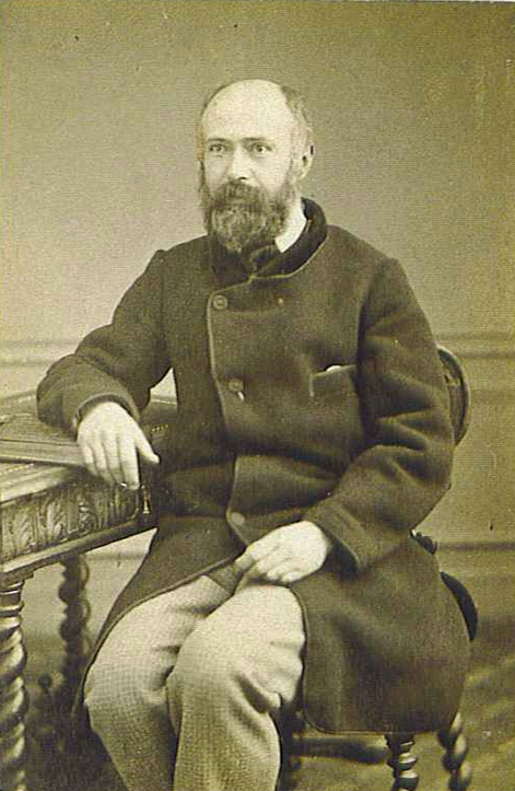 Louis Martin (1823-1894), beatified, husband of Blessed Zélie Martin, father of Saint Thérèse of Lisieux